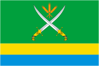 Fastovetskoe (Krasnodar krai), flag